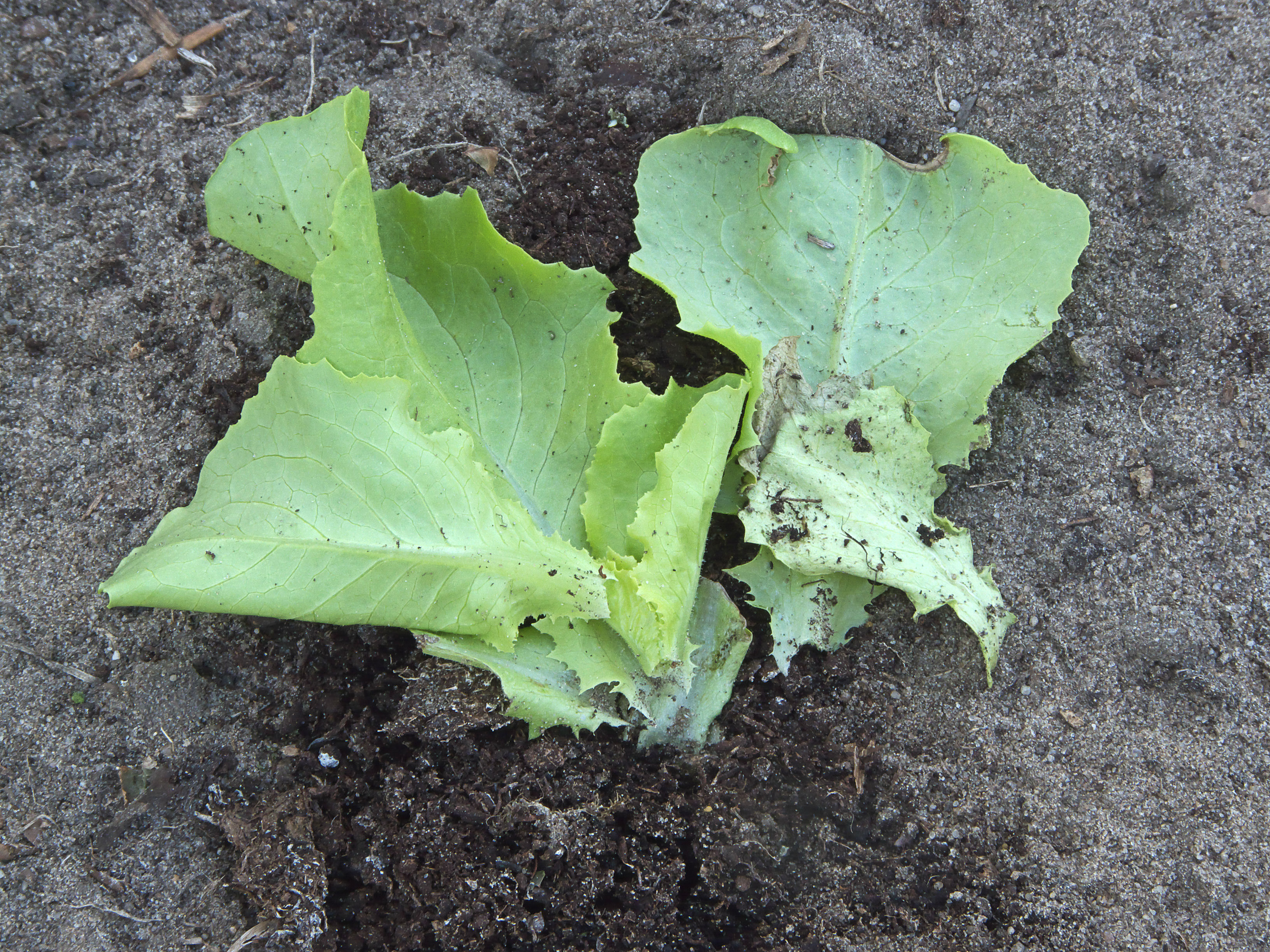 Tipula leatherjacket damage on lettuce